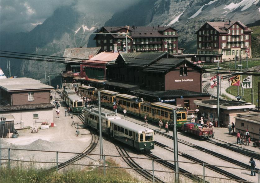 Wengernalpbahn train station at Kleine Scheidegg, Switzerland, in the summer